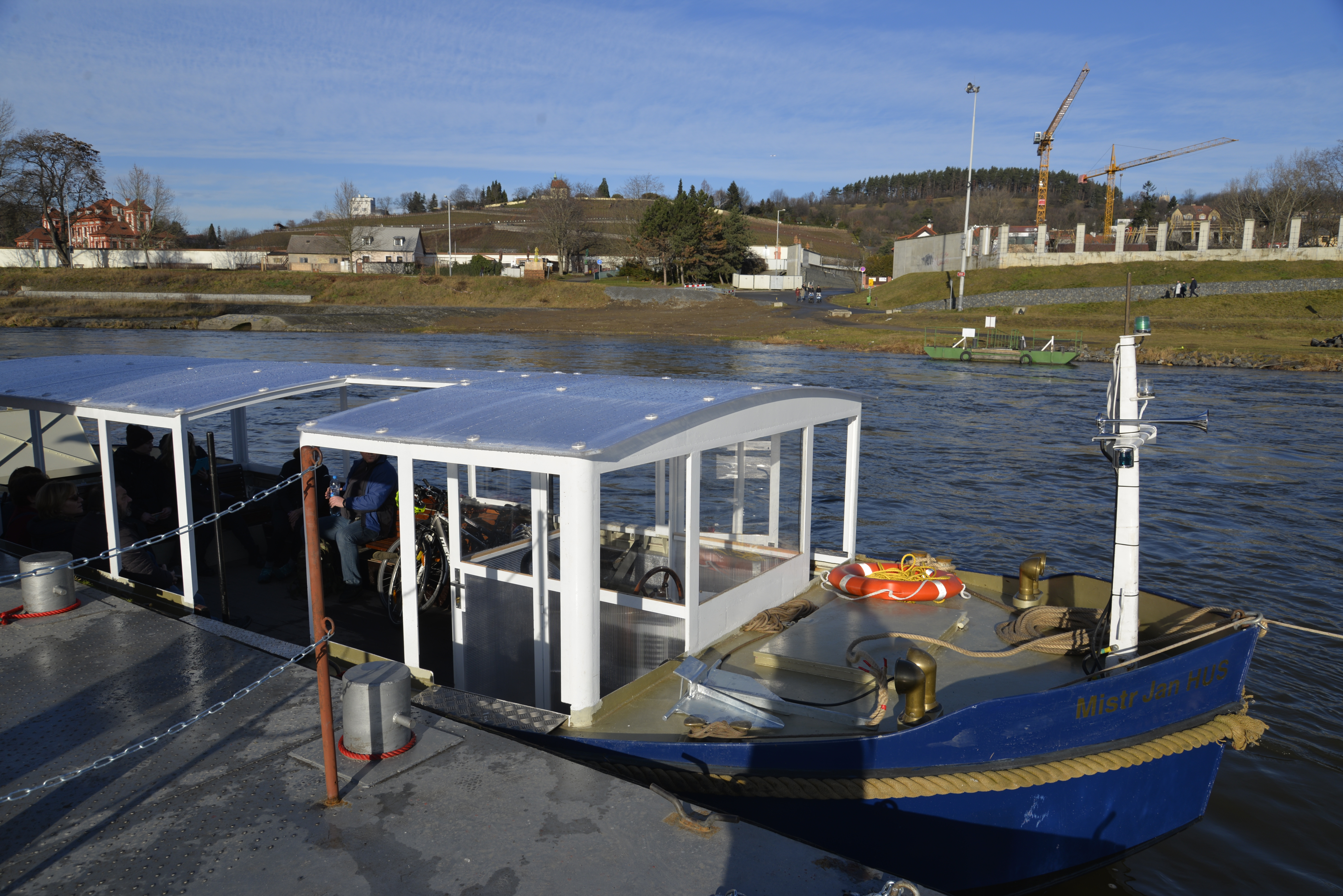 Renewed ferry Císařský ostrov - Troja